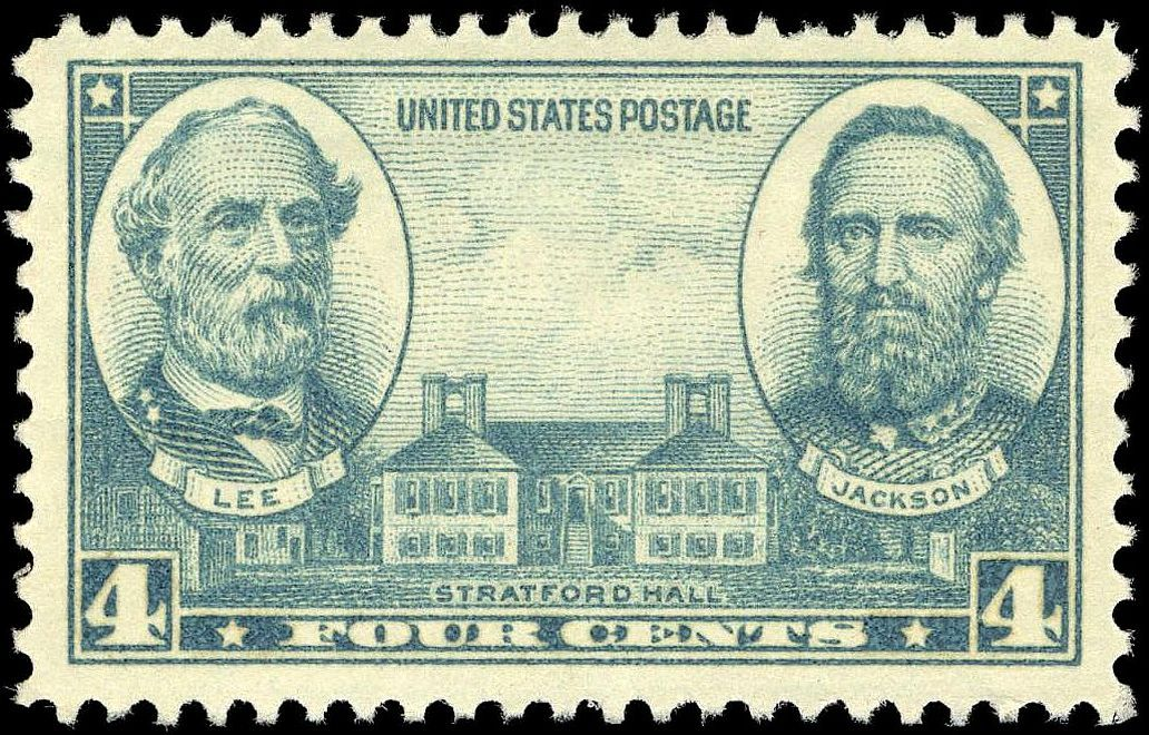 Commemorative postage stamp, 4-cent, Army-Navy issue of 1937 ofGenerals Robert E. Lee and Thomas Jonathan "Stonewall" Jackson